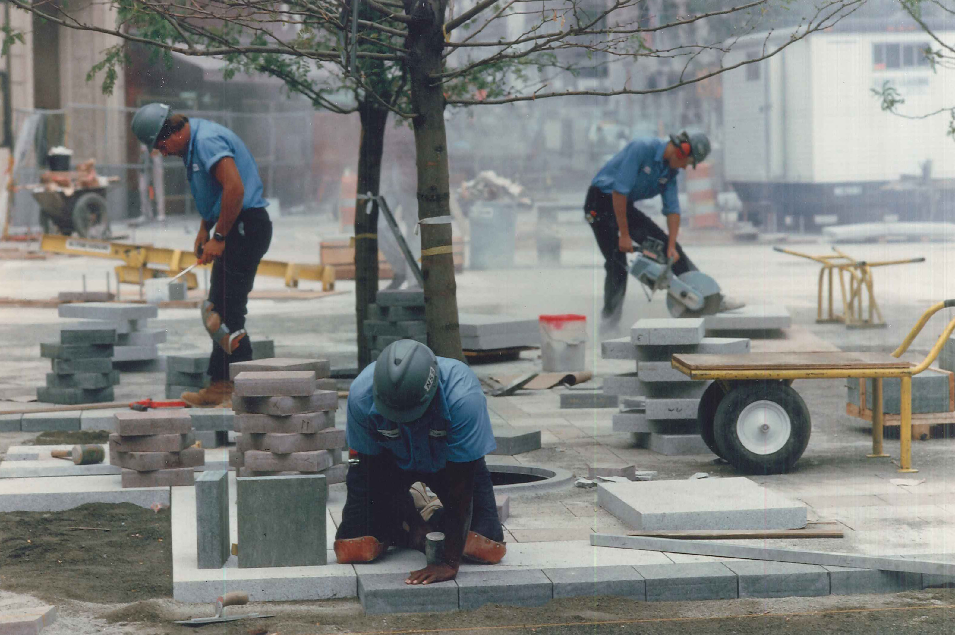 Building Westlake Park, Seattle, circa 1987 Found in folder “Visual Materials – Westlake Development Photographic Documentation, 1987-1988," Westlake Mall Project Records (Record Series 1612-07), Seattle Municipal Archives.